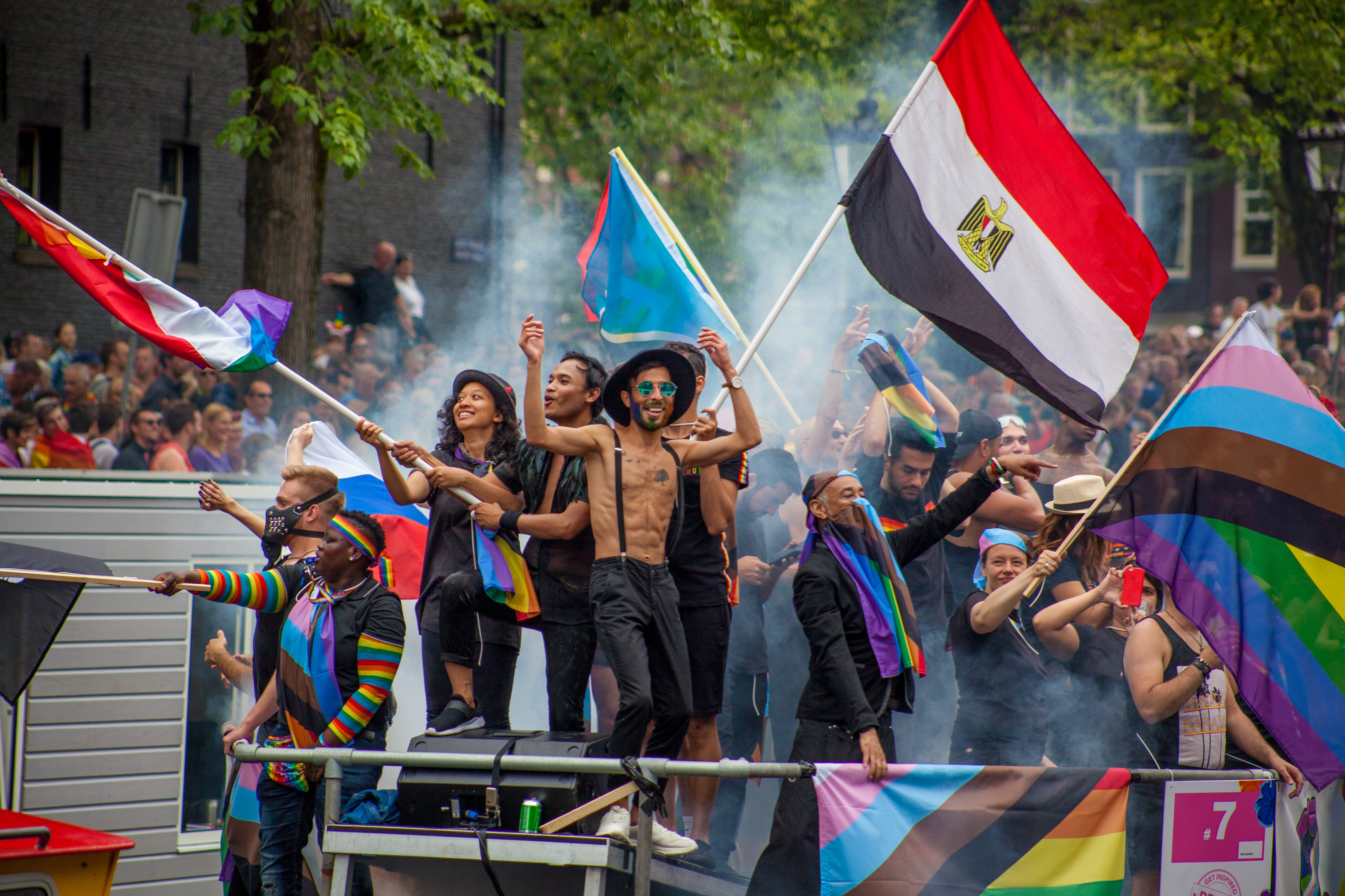 2019 LGBT+ Amsterdam Pride Canal Parade on Korte Prinsengracht, Amsterdam, the Netherlands